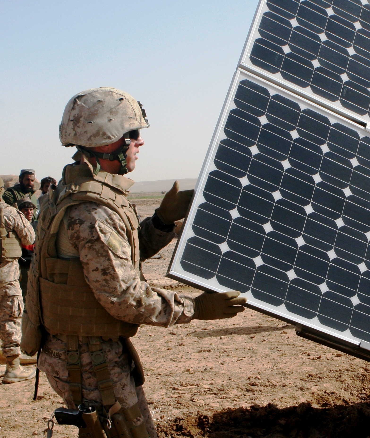 Cpl. David T. Bernabe, a combat engineer with Brigade Headquarters Group, Marine Expeditionary Brigade–Afghanistan, opens solar panels on a solar-powered water purification system here, Feb 16. The water purification system can filter 60 gallons of water per minute.